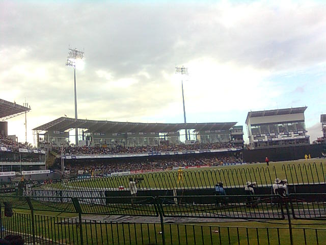 The RPS in Colombo during SL v Aus ODI